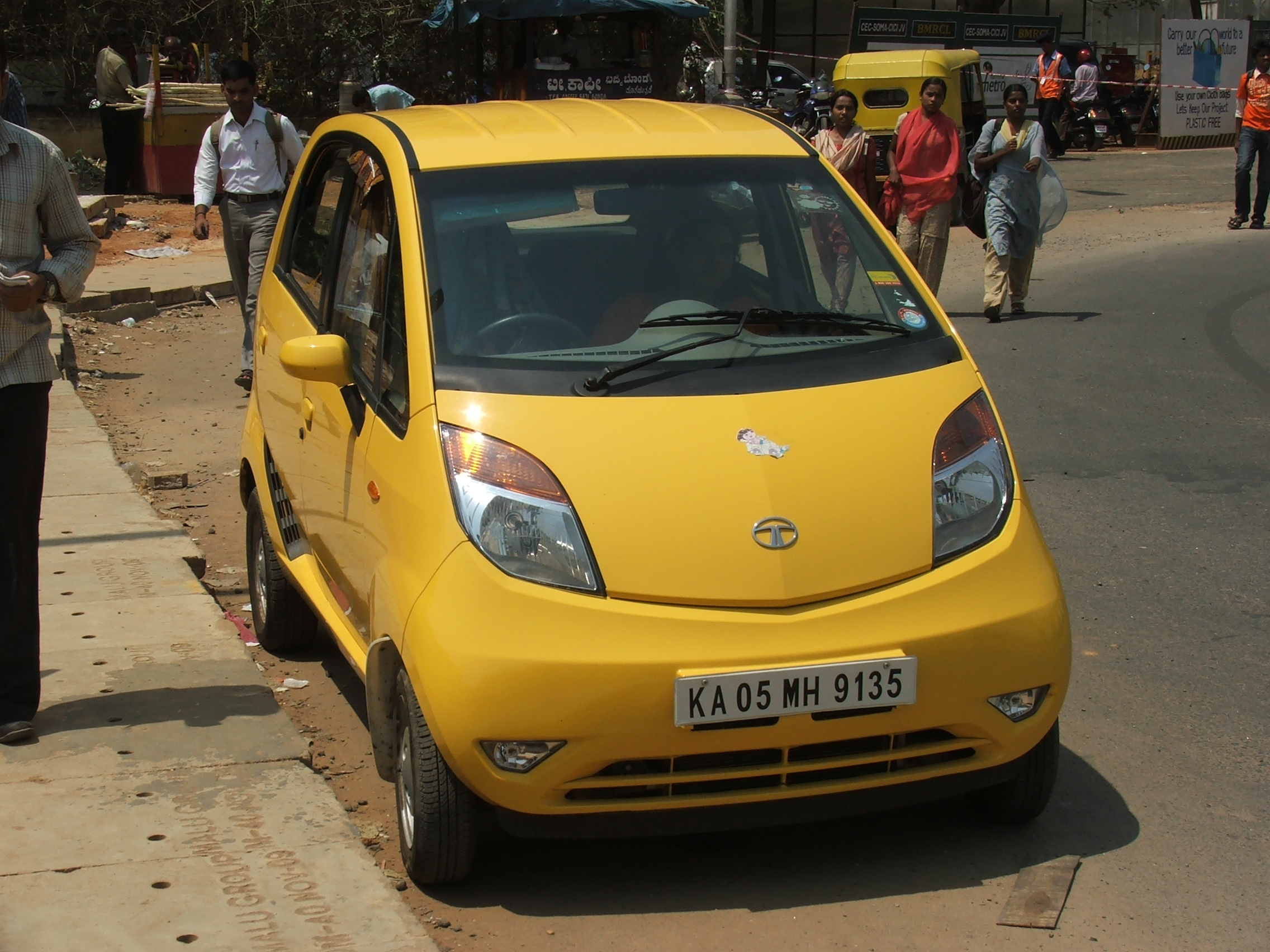 Tata Nano in the streets of Bangalore.